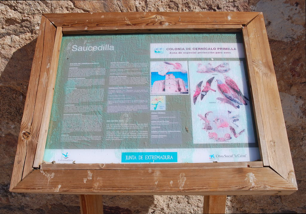 Information panel: SPA Lesser kestrel colony, Saucedilla